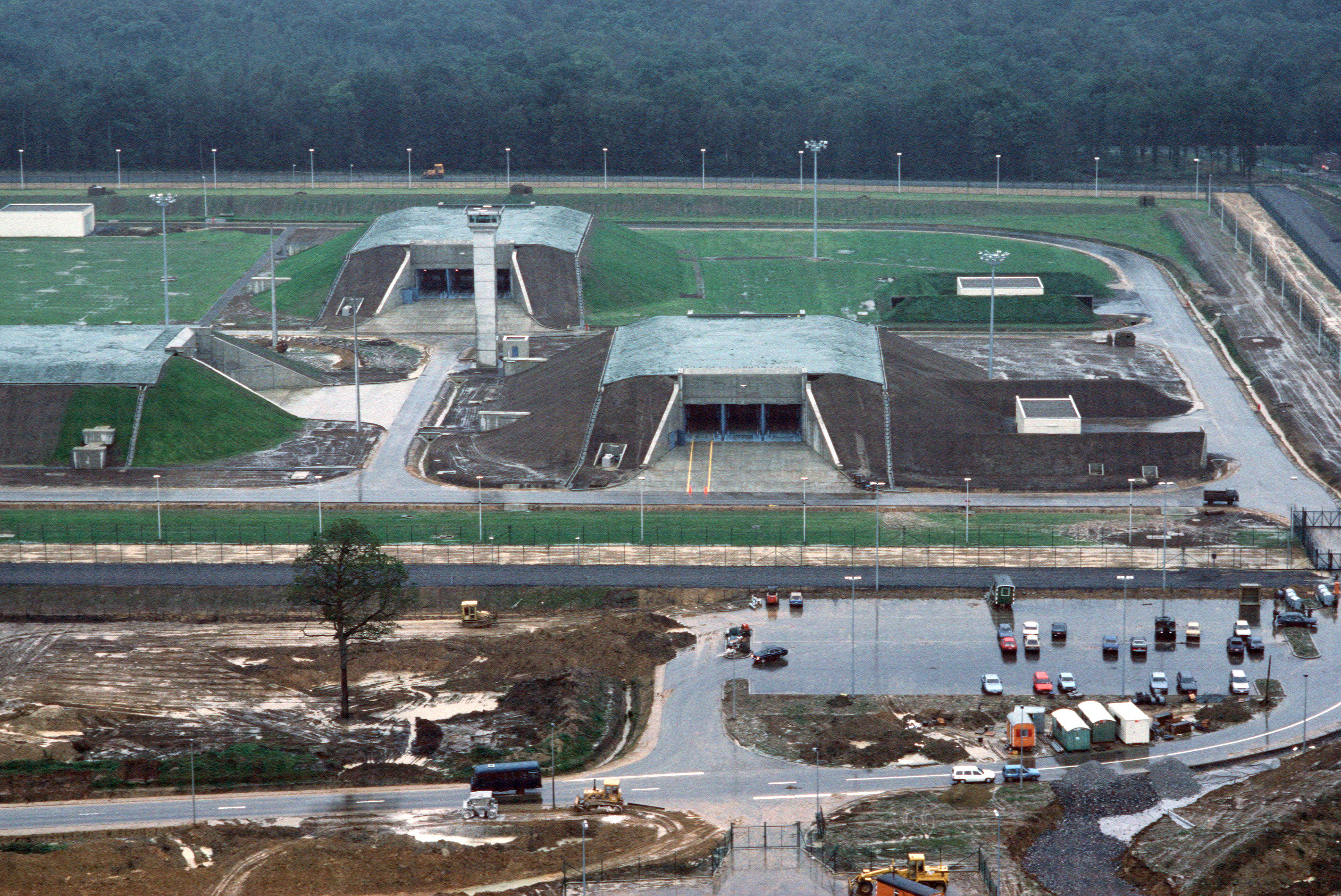 An aerial view of the ground launched cruise missile base at Florennes Air Base, home the 485th Tactical Missile Wing.